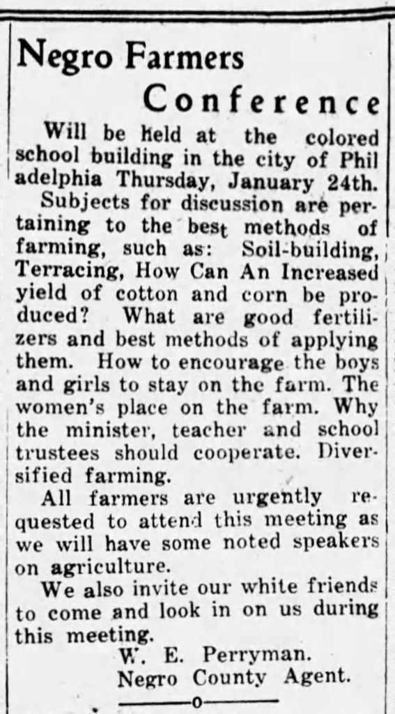 This is an example of the type of events held by county agricultural agents in the 1920s. It is also an example of how African Americans navigated racial segregation during the early 20th century.